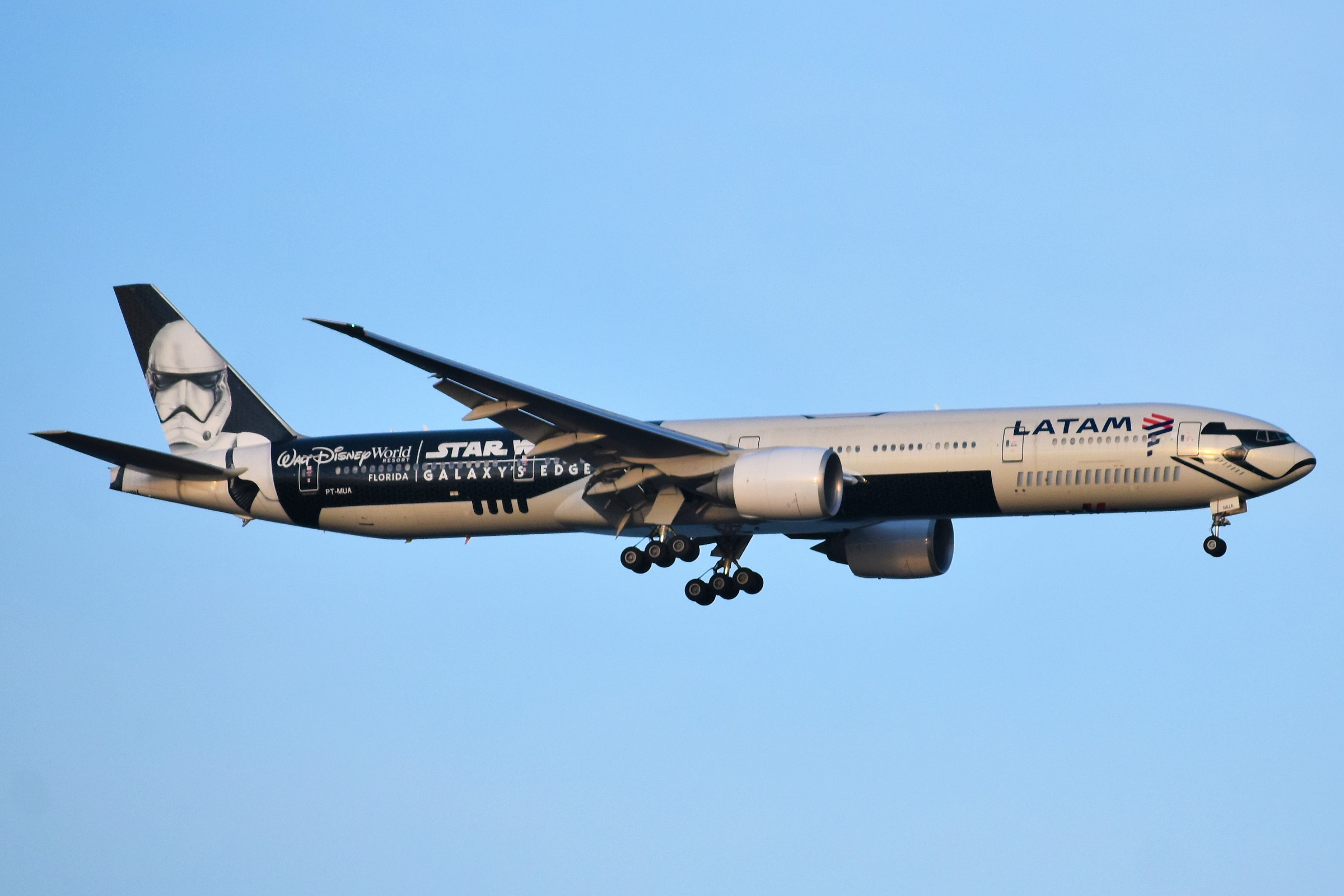 A LATAM Brasil Boeing 777-300ER (painted in Star Wars Galaxy's Edge Stormtrooper livery) is on final approach to John F. Kennedy International Airport from Sao Paulo Guarulhos Airport as Flight LA8180.